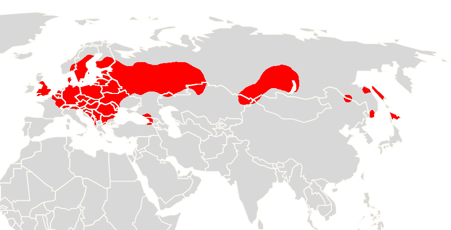 Brandt's Bat (Myotis brandtii), range map, depending on the range map at IUCN red list